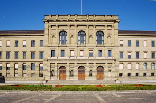 The Zentrum campus of the ETH in Zurich, south-west facade seen from the Polyterrace.